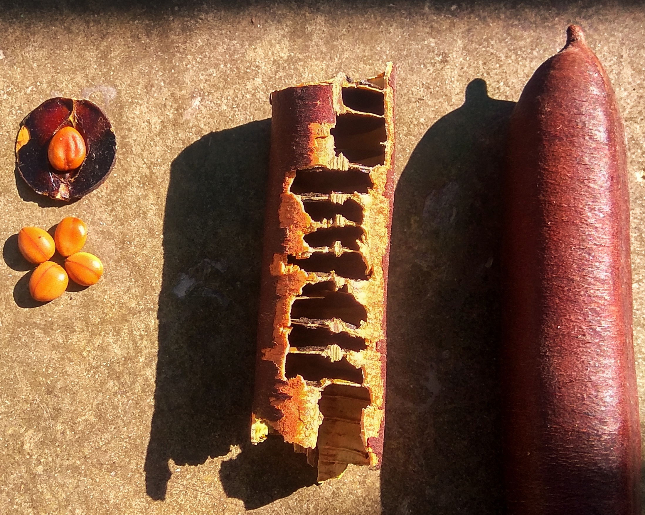 Cassia Fistula is a plant in the family fabaceae. It is commonly known as the Golden Shower, Indiana Laburnum, Raja vriksha.